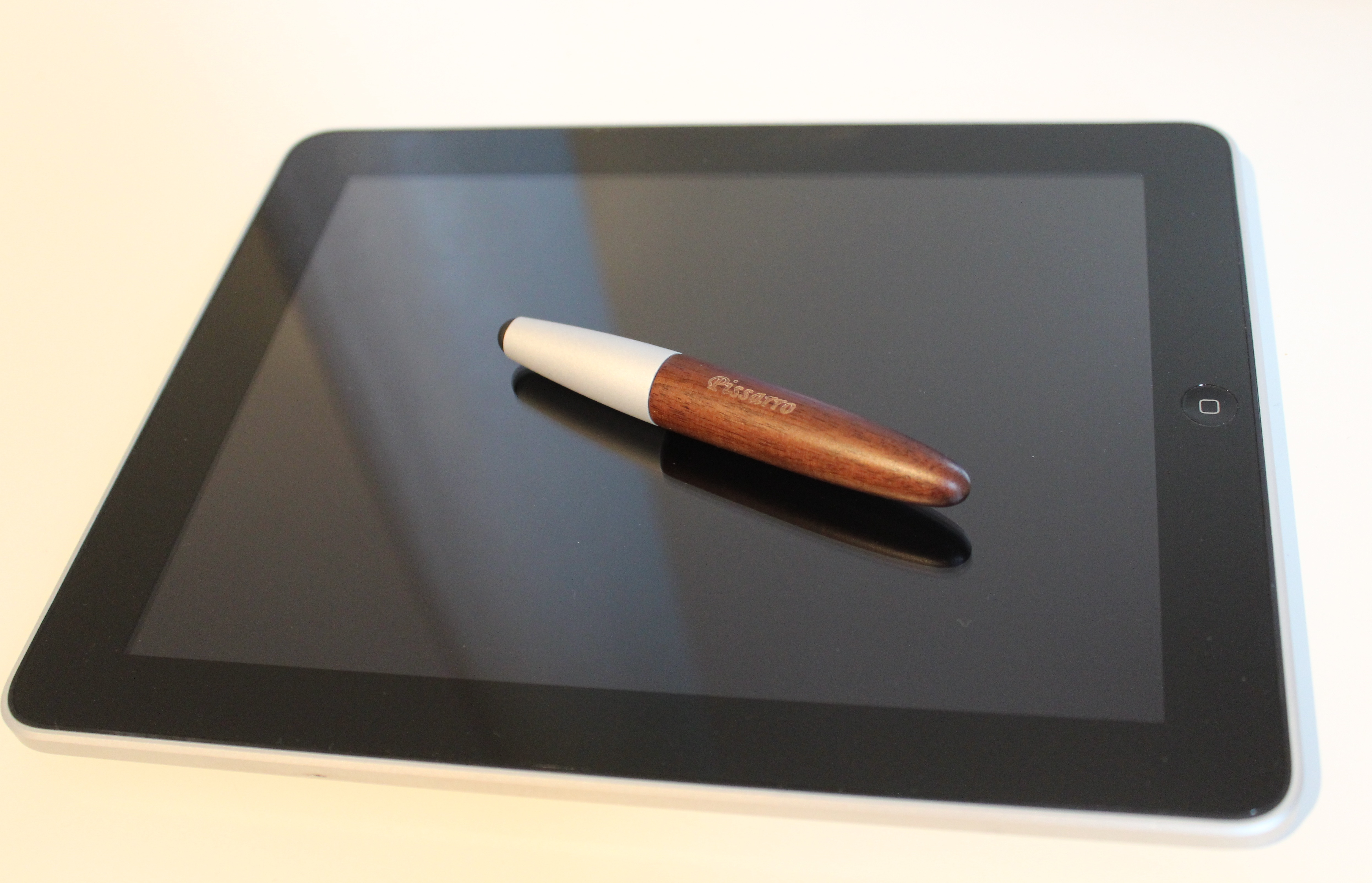 "Pissarro" Stylus from VidaFun for capcitivr screen in wallnut wood and aluminium.